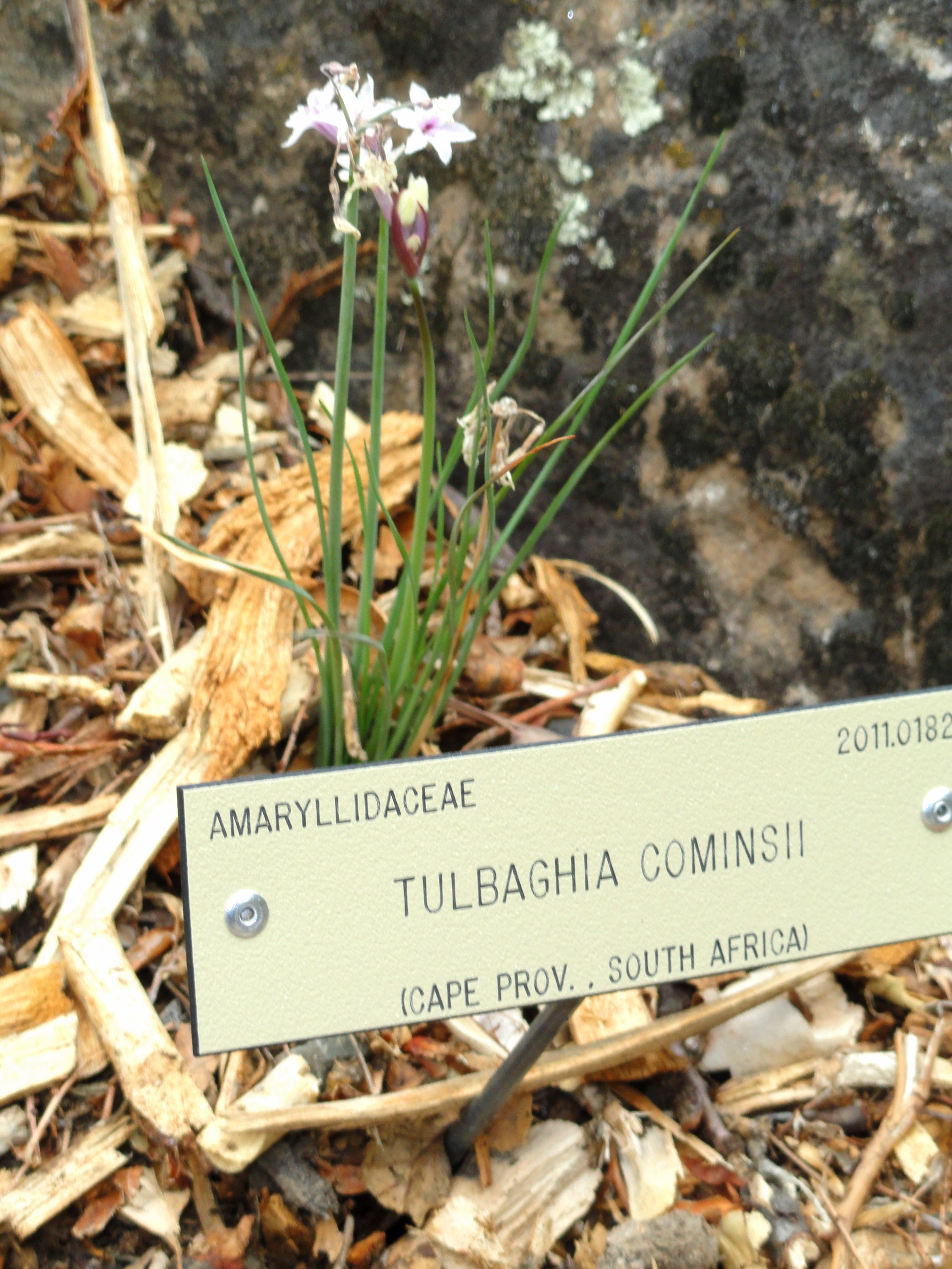 Tulbaghia cominsii specimen in the University of California Botanical Garden, Berkeley, California, USA.